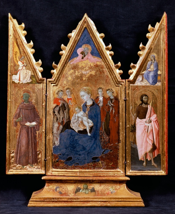 Madonna dell'Umiltà e angeli (al centro), Annunciazione, San Francesco e San Giovanni battista 1435-38, Siena, Collezione Chigi Saracini